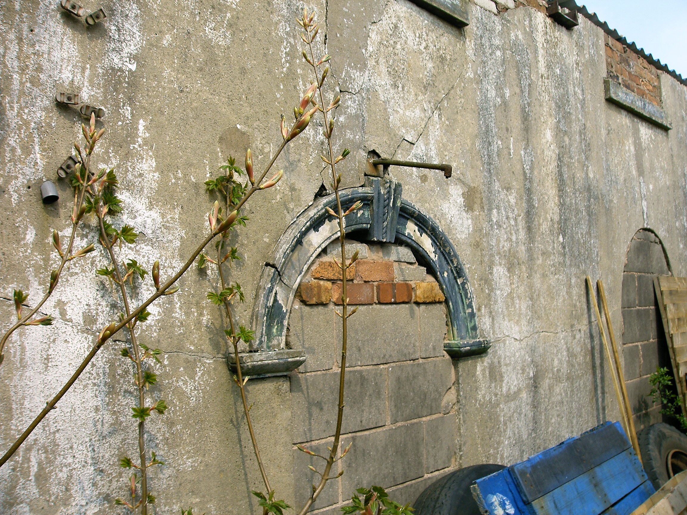 Harriseahead original Primitive Methodist Chapel built by Hugh Bourne (1802) now used as a work shed with only a few parts of the original walls remaining. The upper window sills may be seen. The nearest arch, showing an architectural feature typical of Primitive Methodist Chapels, would have been a doorway. Harriseahead, Staffordshire.